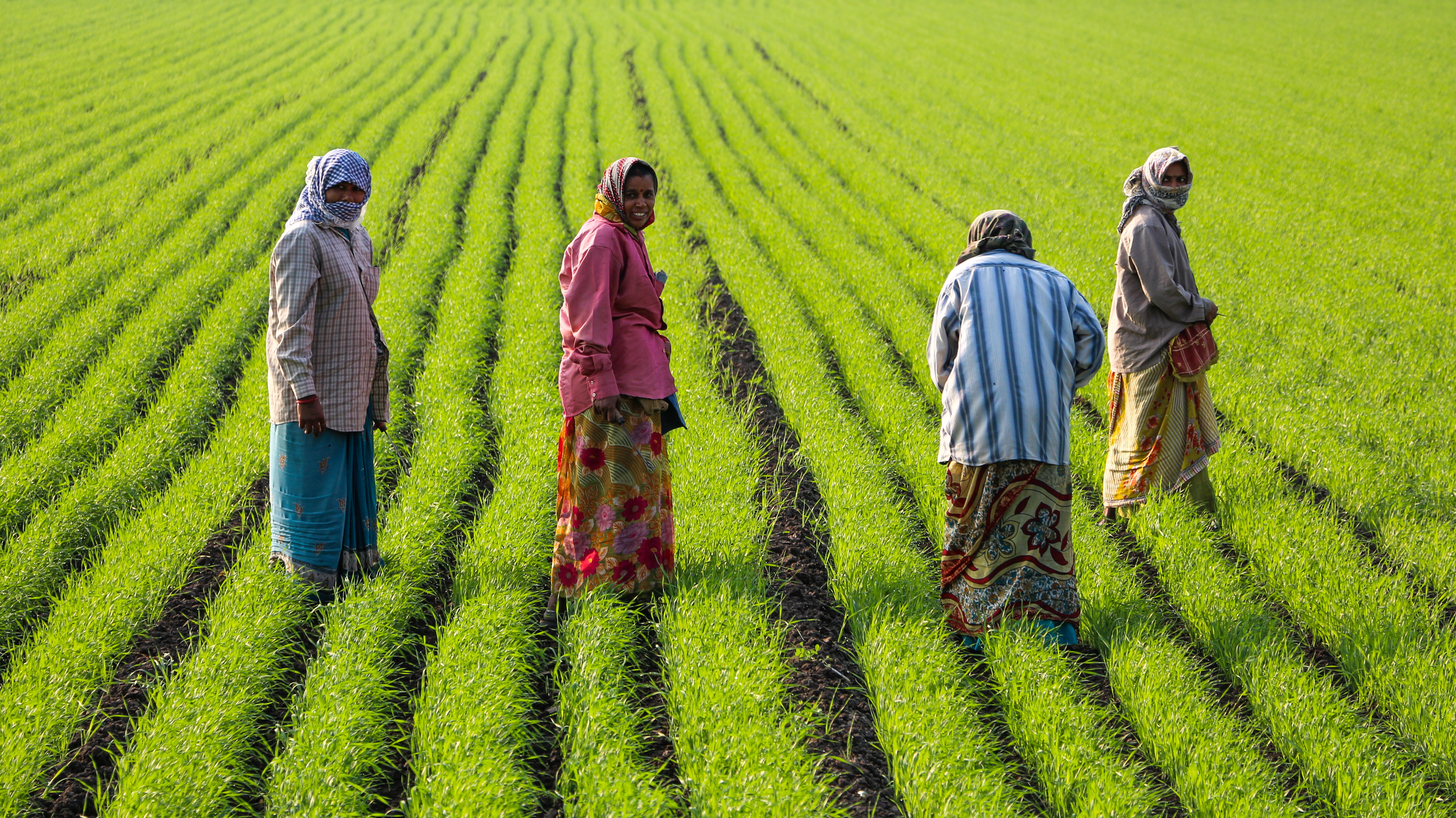 Women working in a rice field near Junagadh, Gujarat, India